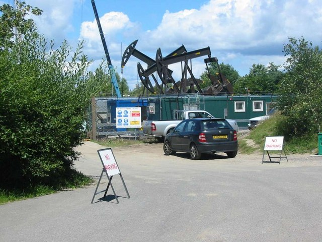 Wytch Farm Oil Wells There are many oil wells dotted about around Poole harbour. Generally they are well hidden in the forests and quite difficult to see even when looking down from the hills to the south of Poole harbour. This is part of the Wytch Farm oil drilling operation; one of the largest onshore oil operations in Europe.